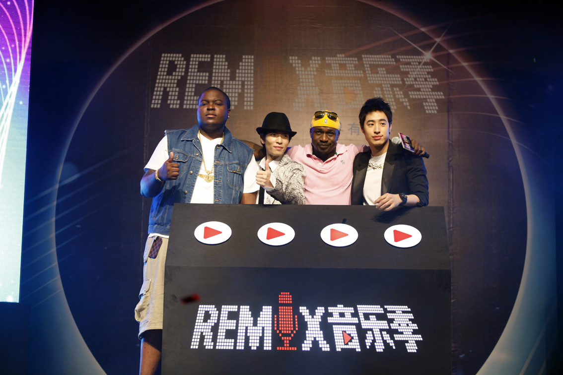 Remix 2011 Press Conference. From left to right: Sean Kingston, Jam Hsiao, Andrew Ballen, and Wilber Pan.